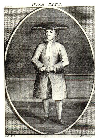 Engraving of actor John Henry (1738-1794) in the role of Ephraim Smooth in "Wild Oats", engraving by C. Tiebout. John Reid published in 1793 edition of the play. Henry was an Irish-born actor and early American actor.